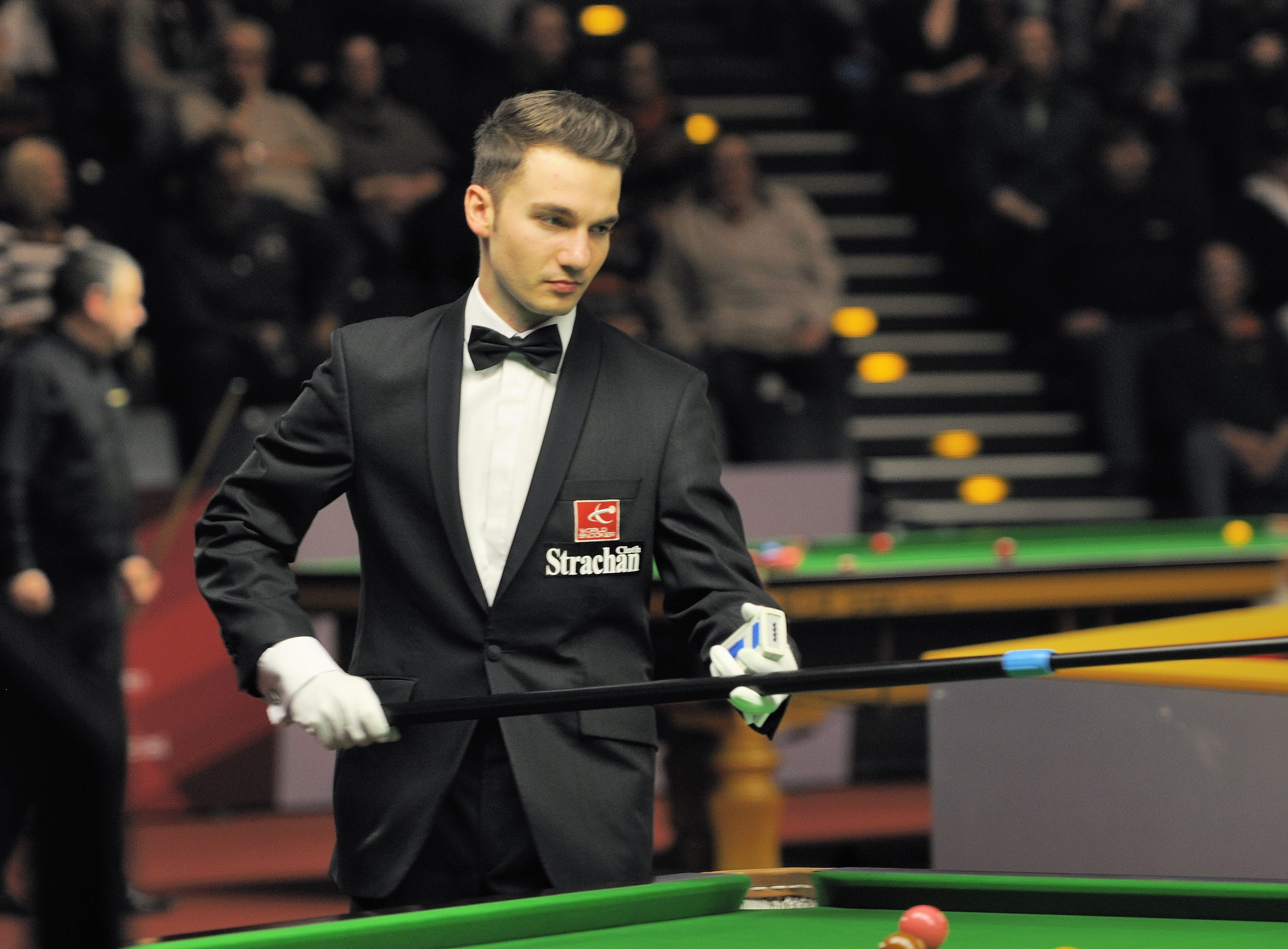 Picture taken in Berlin during the Snooker German Masters in 2014. Marcel Eckardt.